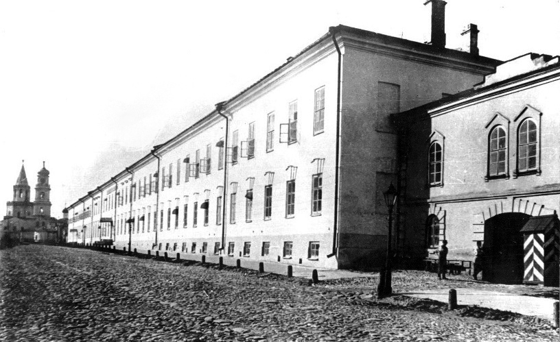 Saviour-Transfiguration monastery in Kazan Kremlin. View from the Military cadet School (today – picture gallery “Hezine”)